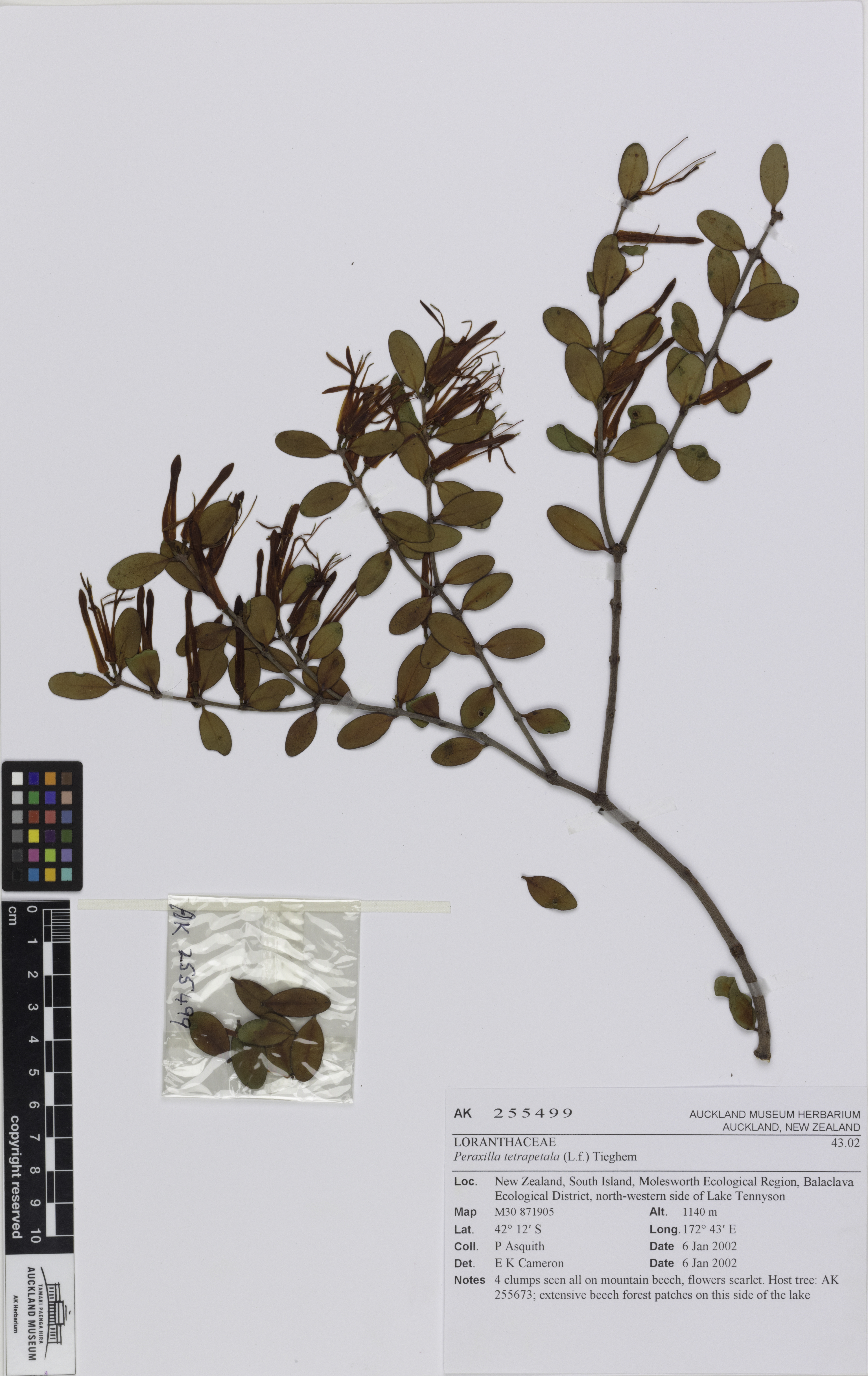 A herbarium specimen of Peraxilla tetrapetala held at the Auckland War Memorial Museum.